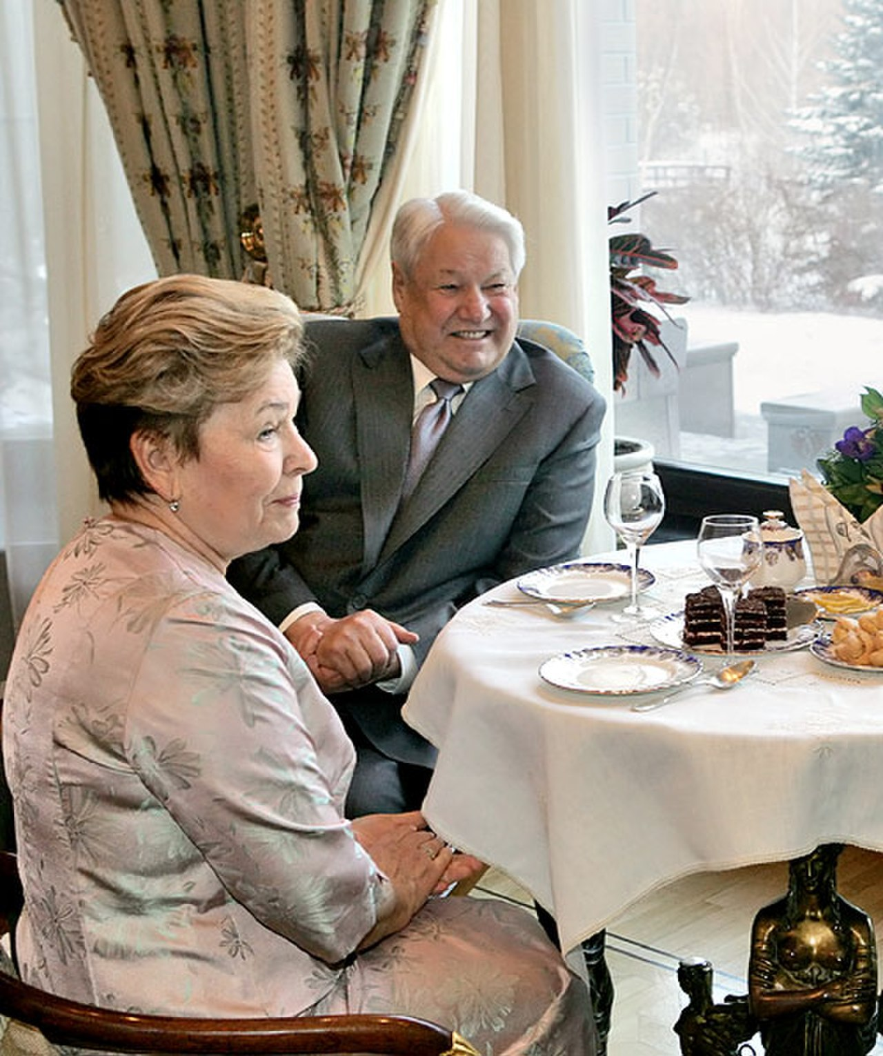 MOSCOW REGION. Boris Yeltsin and Naina Iosifovna on his 75th birthday.